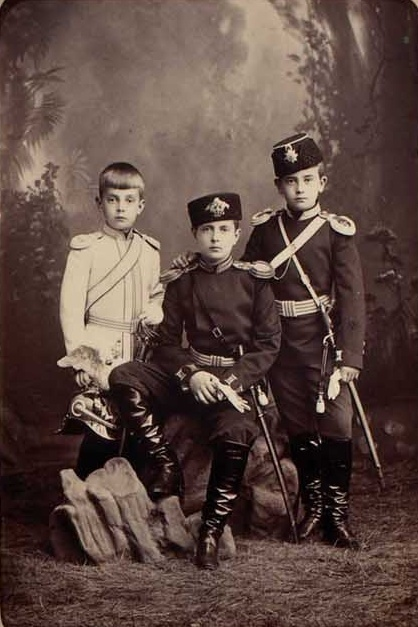 Grand Dukes Andrei, Kirill and Boris Vladimirovich in their childhood